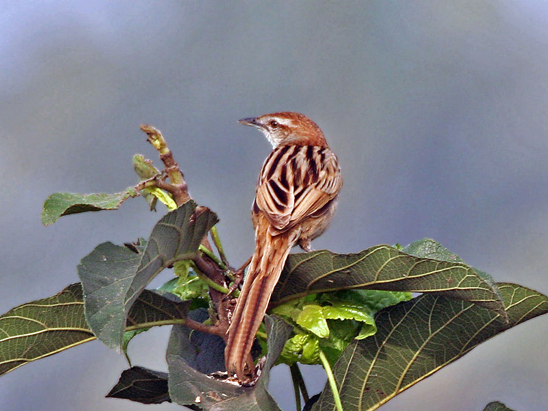 Striated Grassbird ((Megalurus palustris)) in Kolkata, West Bengal, India.